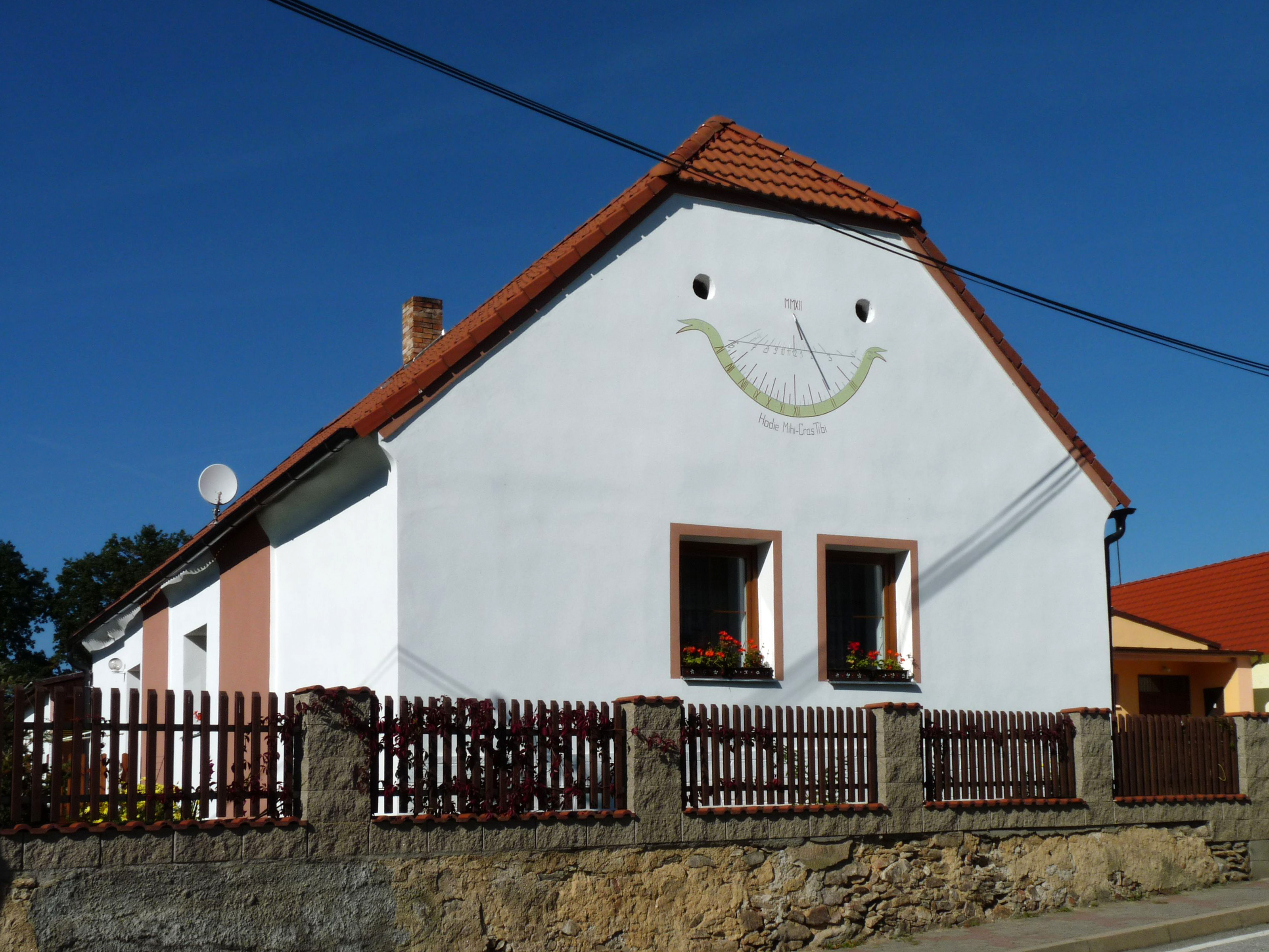 House No 1 in the village of Chvalešovice, České Budějovice District, South Bohemian Region, Czech Republic (part of the municipality of Dříteň).